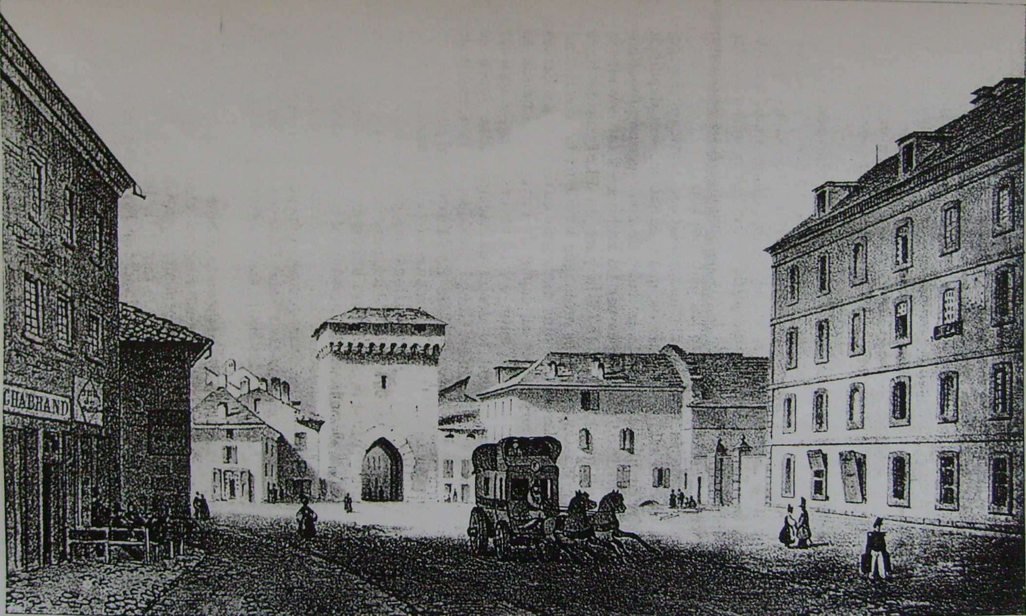 Lignole gate in Gap( Hautes-Alpes, France), about 1830; print made by Alexandre Debelle.